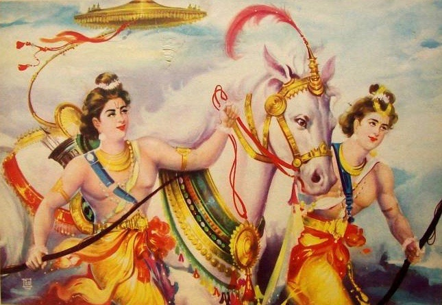 Sita and Rama have twins after they return from the 14-year exile and the war with Ravana. This is a derivative work on the following file available on wikimedia commons: The boys capture Rama strayed horse (bazaar art, mid-1900's).jpg